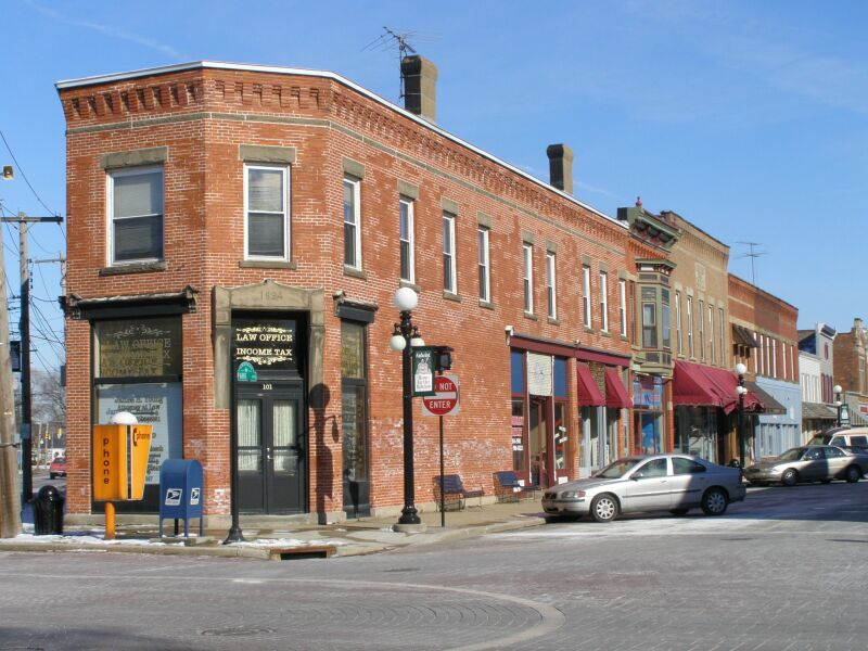 Center of Amherst, Ohio